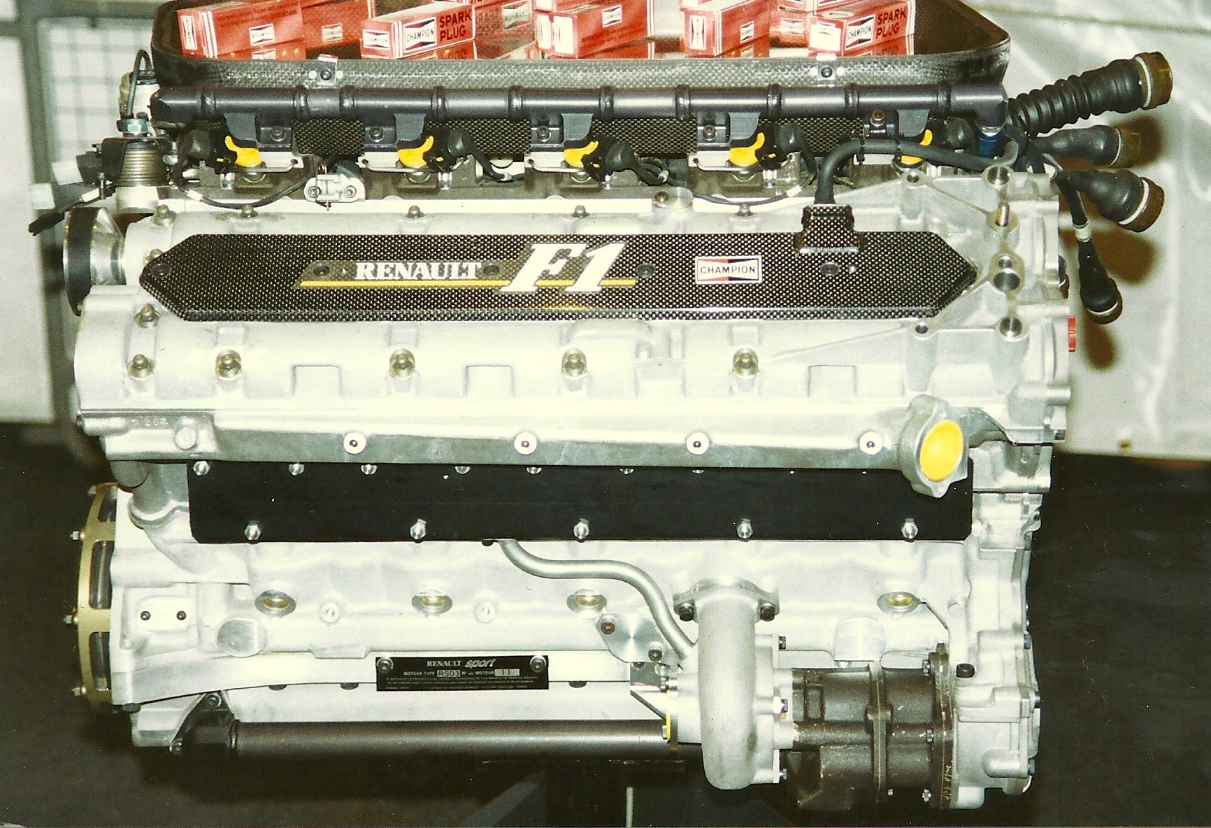 The Renault RS3 engine on display at the 1994 Autosport International.